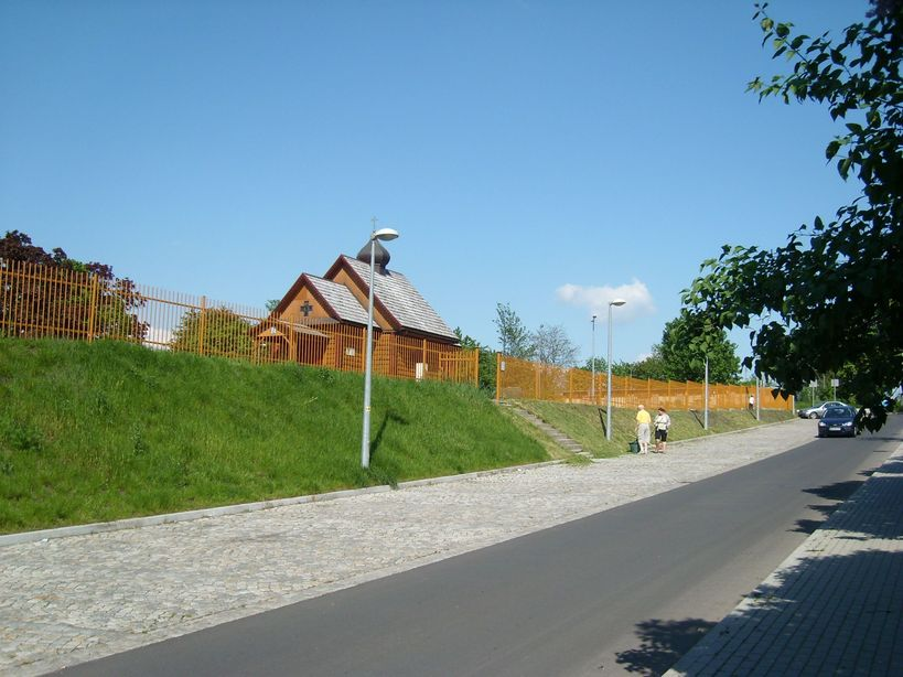 Orthodox church in Zgorzelec (May 2008)